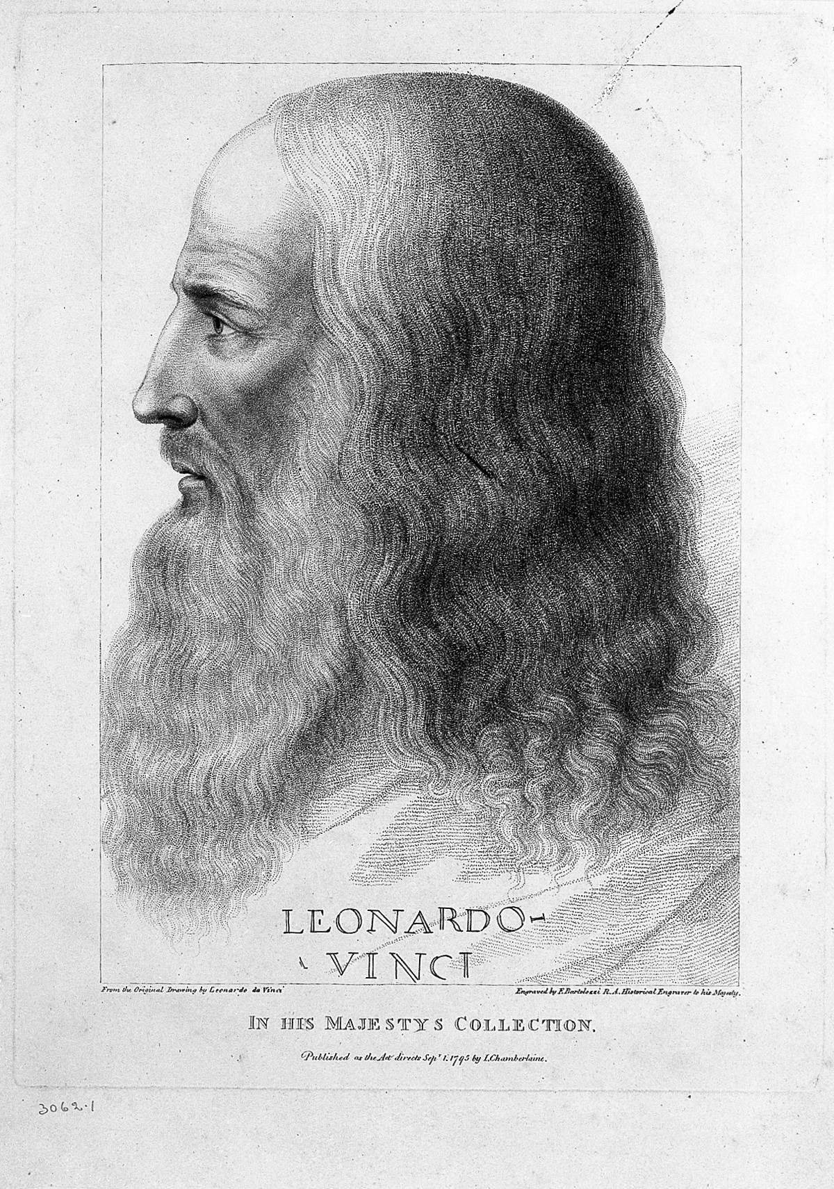 Leonardo da Vinci. Line engraving by F. Bartolozzi, 1795, after the sitter. Iconographic Collections Keywords: Leonardo Da Vinci